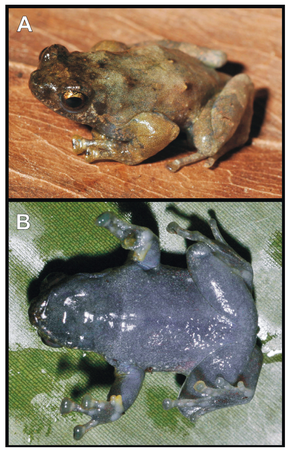 Anodonthyla theoi, original caption: Fig. 12. Living specimen of Anodonthyla theoi from Manombo Special Reserve in (A) dorsolateral and (B) ventral views.